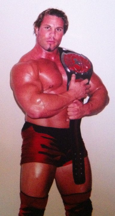 This picture was taken after Toland won his first OVW title